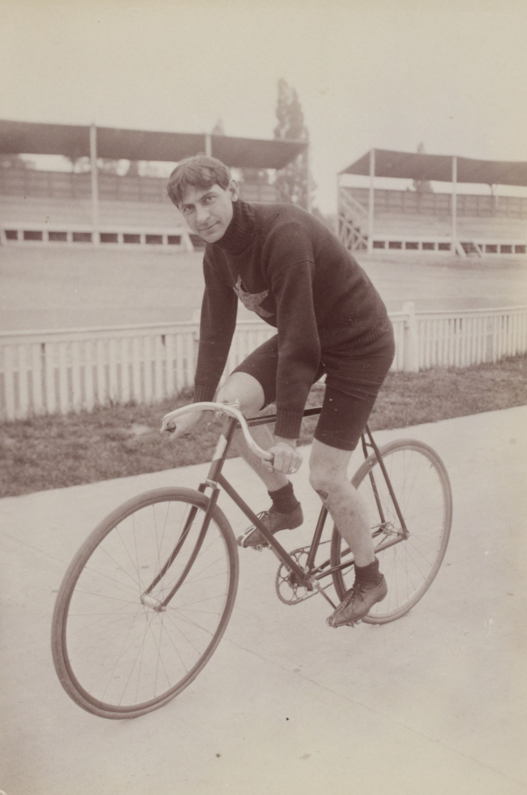 [Collection Jules Beau. Photographie sportive] : T. 19. Année 1902 / Jules Beau] Arthur Augustus Zimmermann, cyclist from the USA